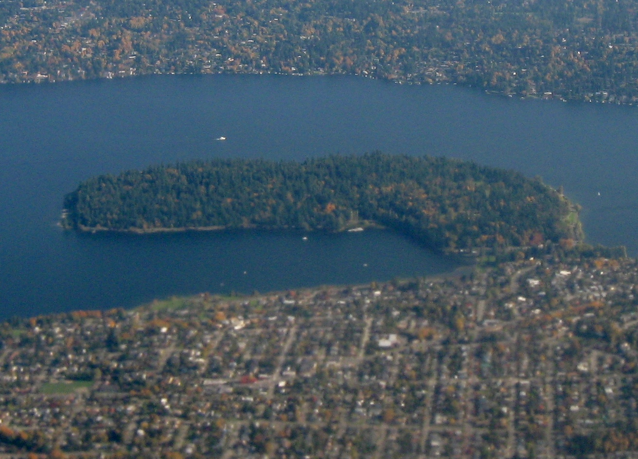 Aerial view of Seward Park, Seattle, viewed from west looking east. Seattle is at bottom and Mercer Island at top, with Lake Washington surrounding the park. Crop of File:Aerial view of Seward Park and Mercer Island.jpg. Taken by myself from a commercial airliner window.